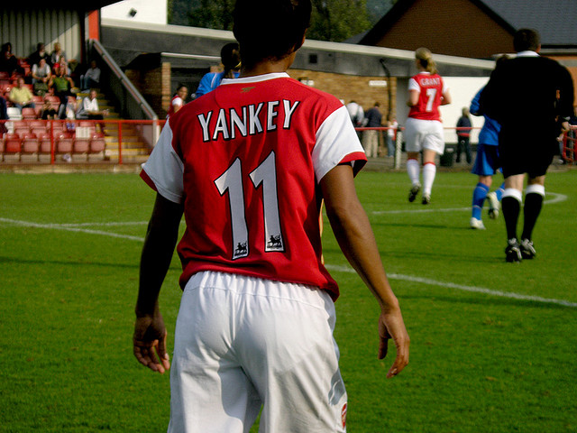 Bclfc vs arsenal in the FA league cup, season 2006/07. For more details go to